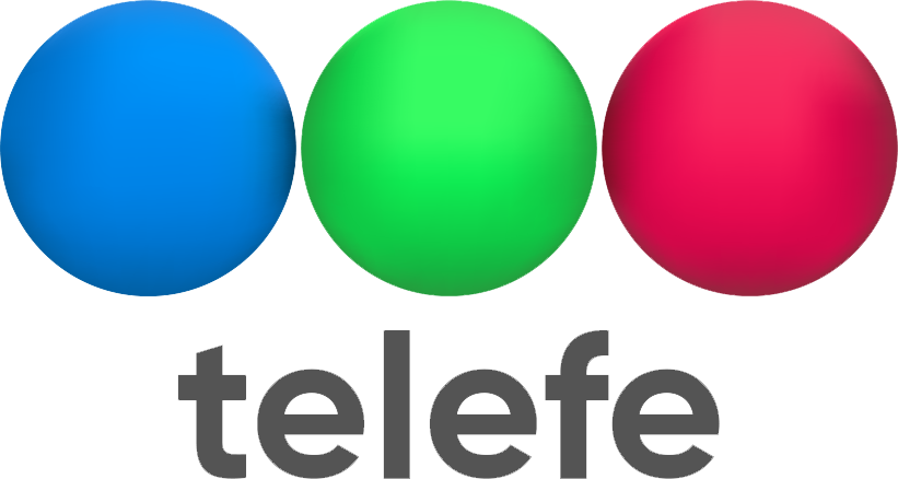 Nuevo logo del canal